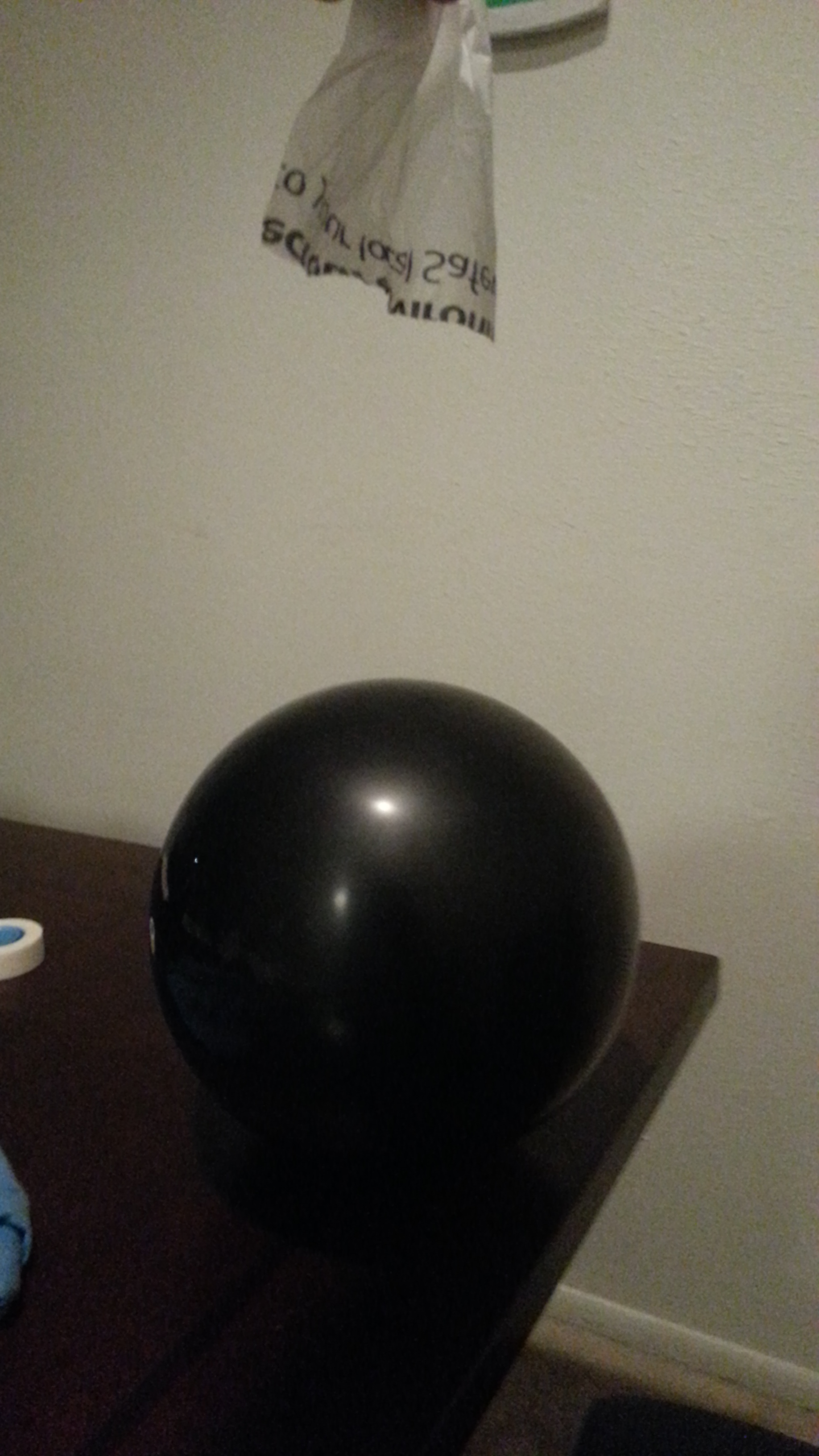 static electricity